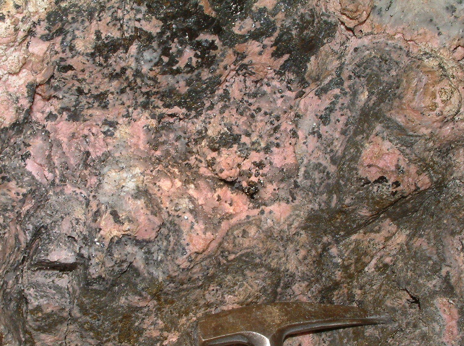 Typical mineral assemblage of a vein in the Huarón Mine. Spahlerite and Tetrahedrite-tennantite (dark grey), rhodocrosite (orange), proustite (deep red).